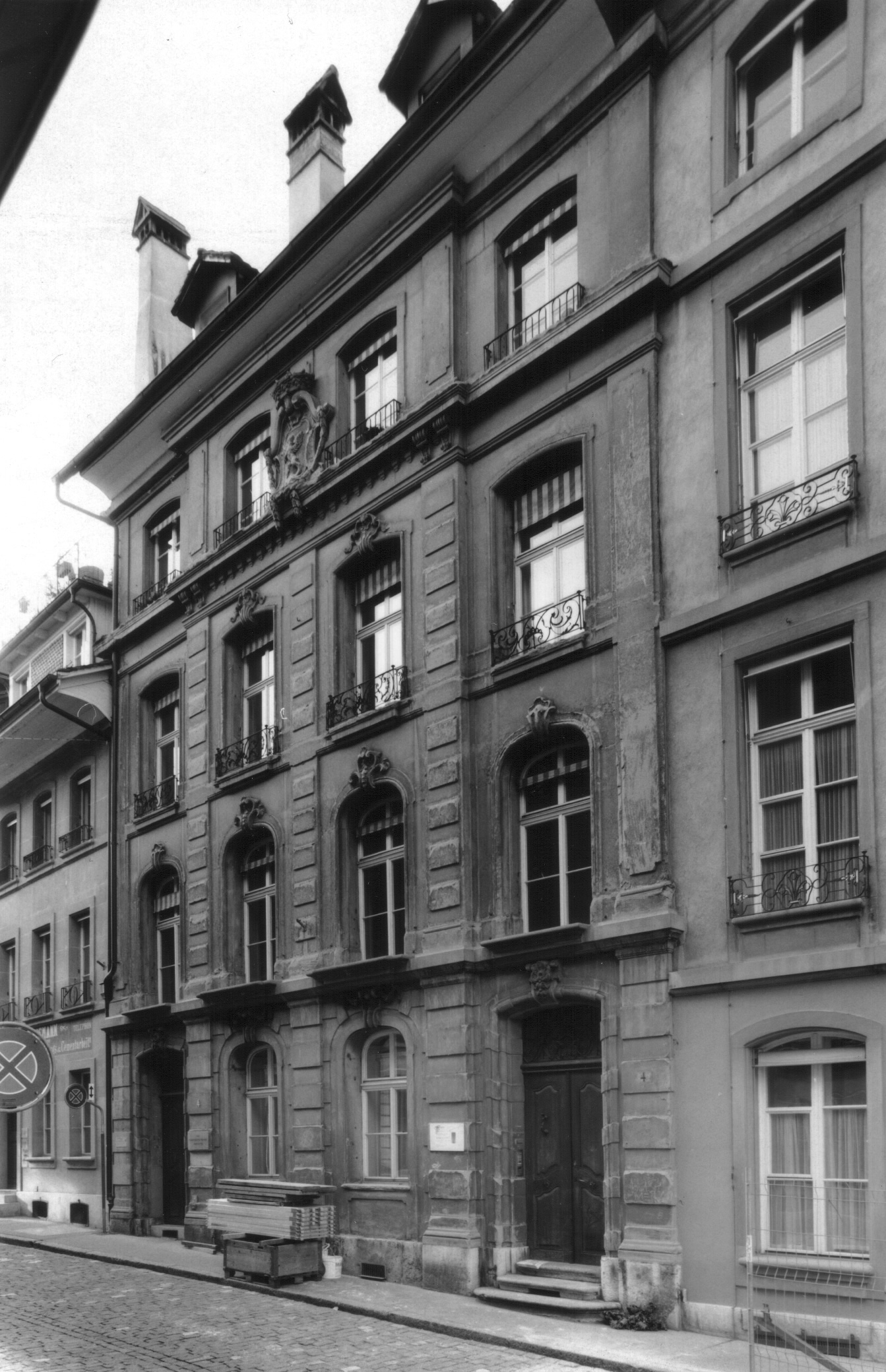 Herrengasse 4, Berne, Switzerland. Built in 1756-1765 by Niklaus Sprüngli for Abraham Ahasverus Tscharner. Listed as a Swiss heritage site of national significance.